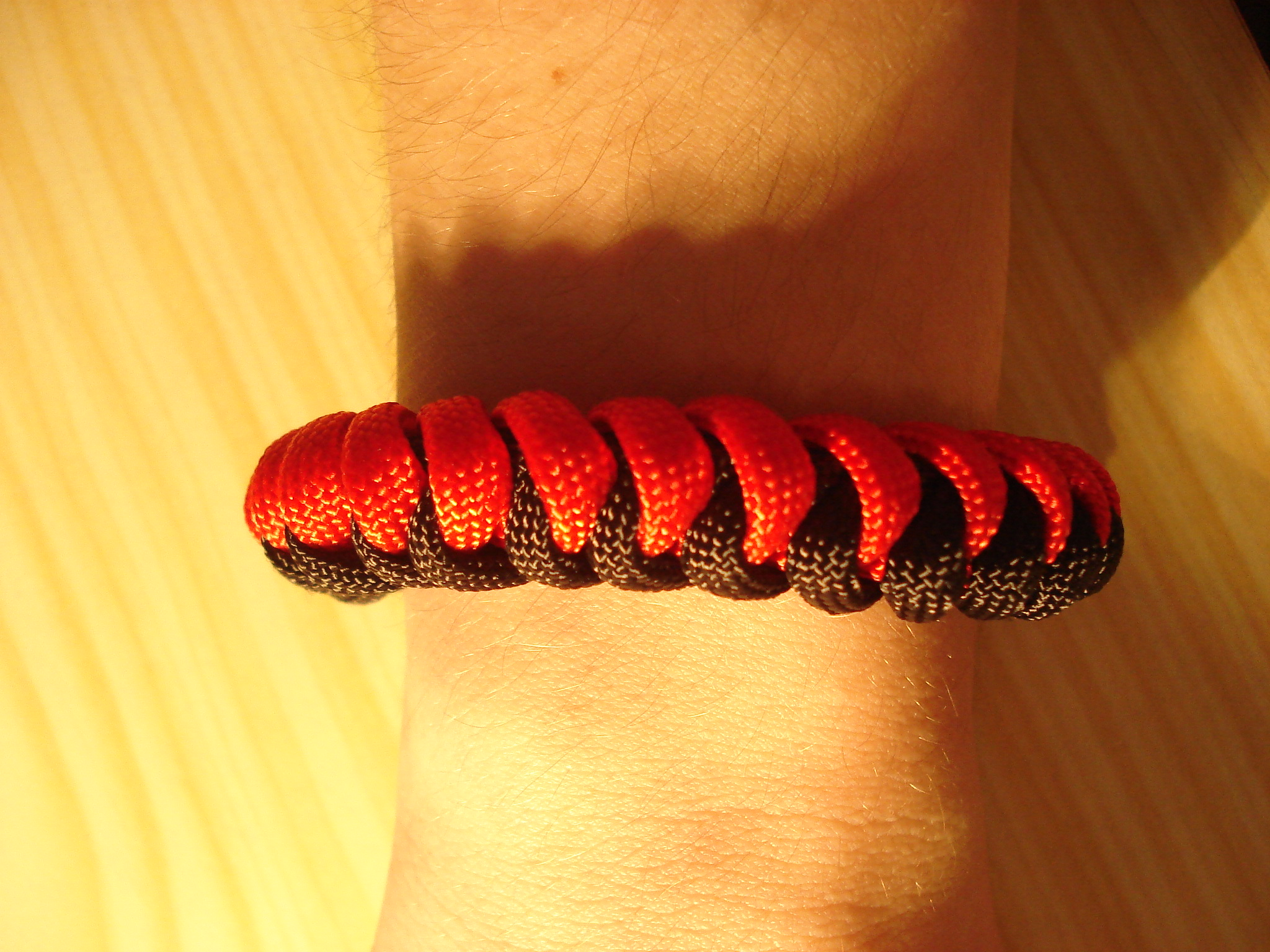 A paracord snake knot bracelet